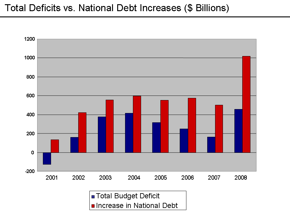 Reported budget deficit data is from: and Reported debt change data is calculated from: On-budget vs. off-budget data is from: ; see page 370 (Table 23-1). This chart shows how the reported budget deficit often quoted in the press is increasingly not reflective of government spending in excess of tax receipts, which is indicated by debt increases. There are two primary categories of differences: thumb|Comparison of Deficits to Change in Debt 2008 "Off-budget" amounts: There are certain categories of receipts and disbursements which are included in the budget process, but are (counter-intuitively) called "off-budget." The primary item is Social Security. During 2007, the "Off-budget" surplus was $183 billion, which lowered the "On-budget" deficit of $638 billion to the "Total Deficit" of $455 billion. This total deficit figure is the amount often reported in the press; such amounts are illustrated by the blue bars in the chart. Supplemental appropriations: These amounts are authorized for payment via legislation outside the annual budget process. Examples are the costs of the Iraq & Afghanistan Wars (about $750 billion total since 2001), the Economic Stimulus Act of 2008 (about $170 billion), and earmarks (about $20-$50 billion per year). Since the debt went up about $1017 billion during 2008, that means $379 billion (1017-638=379) were non-budgeted expenses or outside the annual budget process.